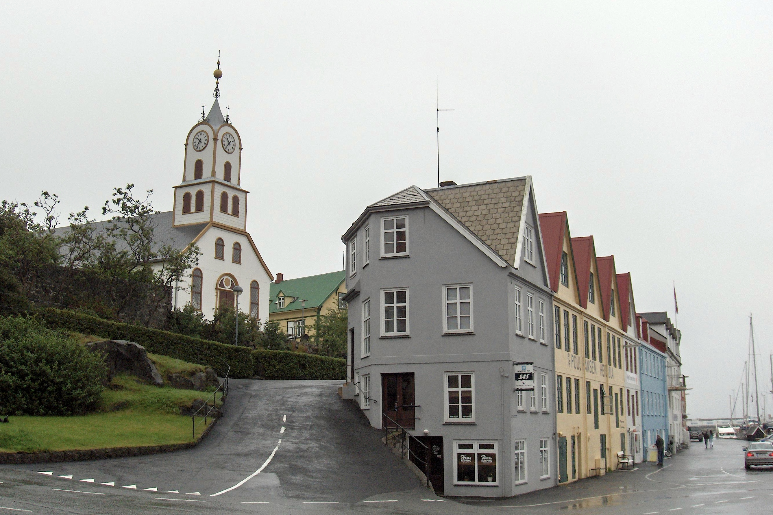 Torshavn Cathedral and harbourside buildings, Faroe Islands